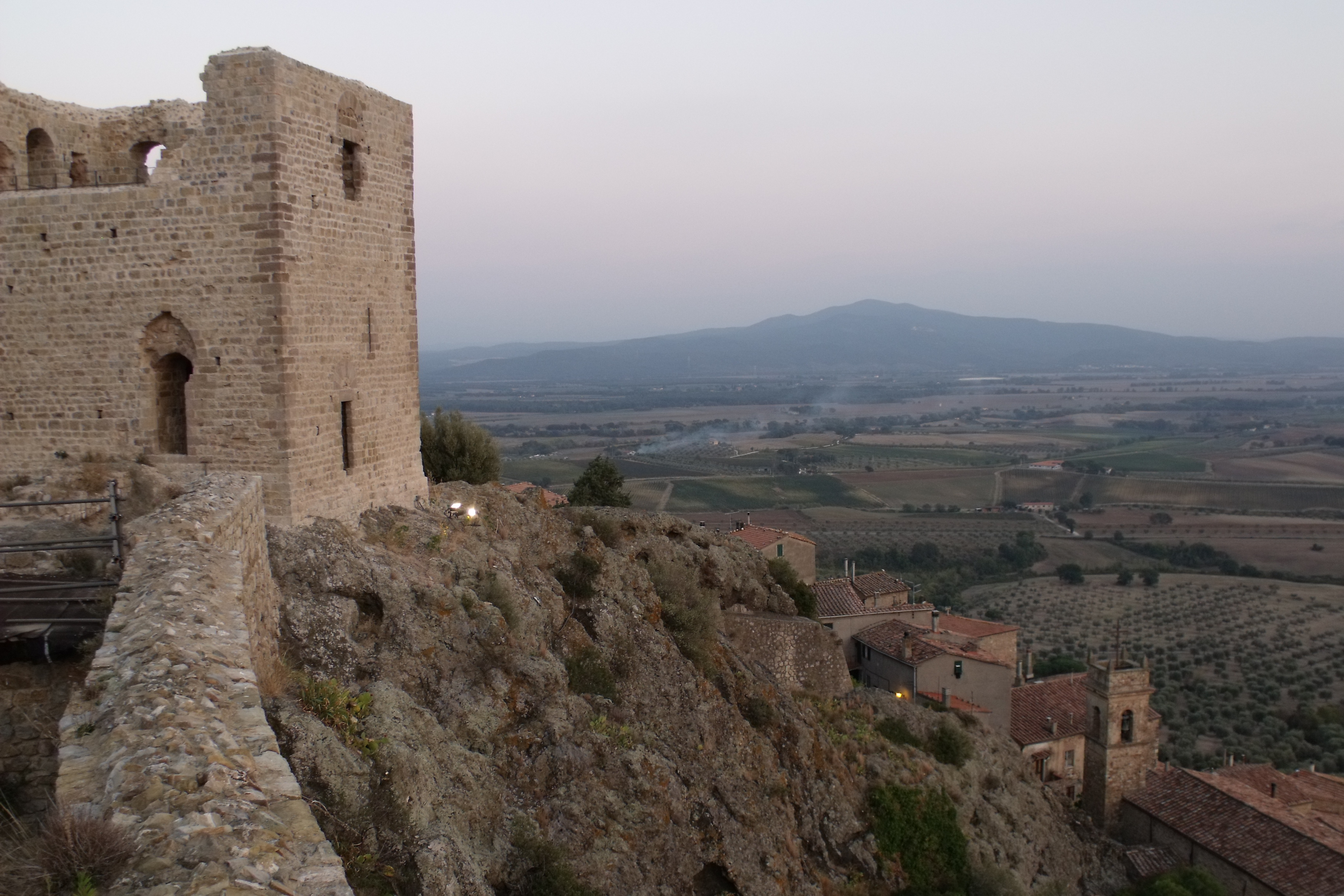 Castle and Borgo of Montemassi, Municipality of Roccastrada, Province of Grosseto, Tuscany, Italy